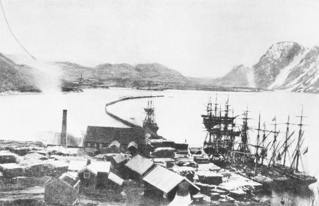 The North of Europe Land & Mining Co. Ltd. (Engelskbruket) at Halsøya outside (today in) Mosjøen, Norway.